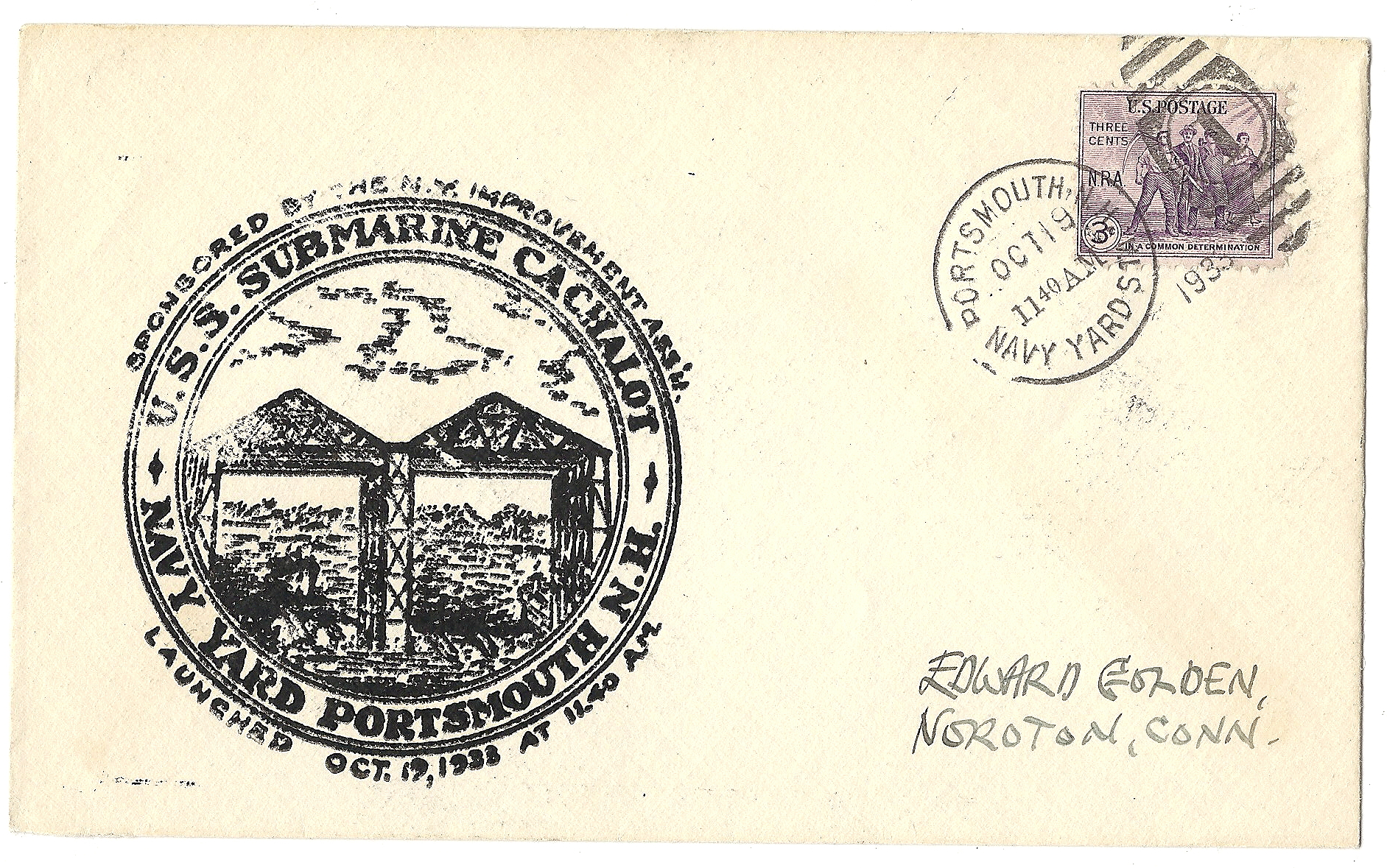 USS Cachalot] at the Portsmouth, New Hampshire Navy Yard, October 19, 1933, postmarked Portsmouth N.H. Navy Yard Station